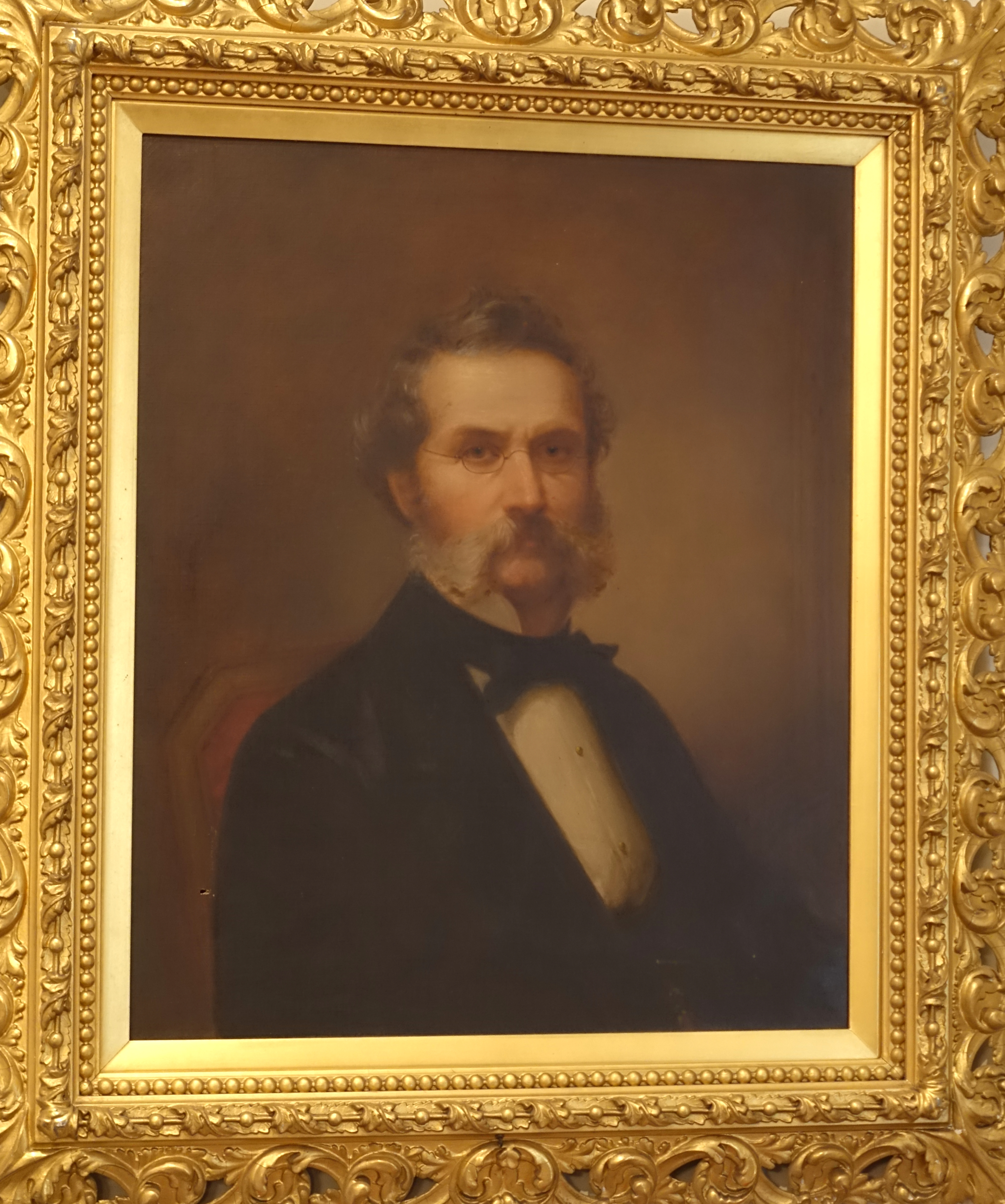 Exhibit in the Old Colony History Museum - Taunton, Massachusetts, USA.